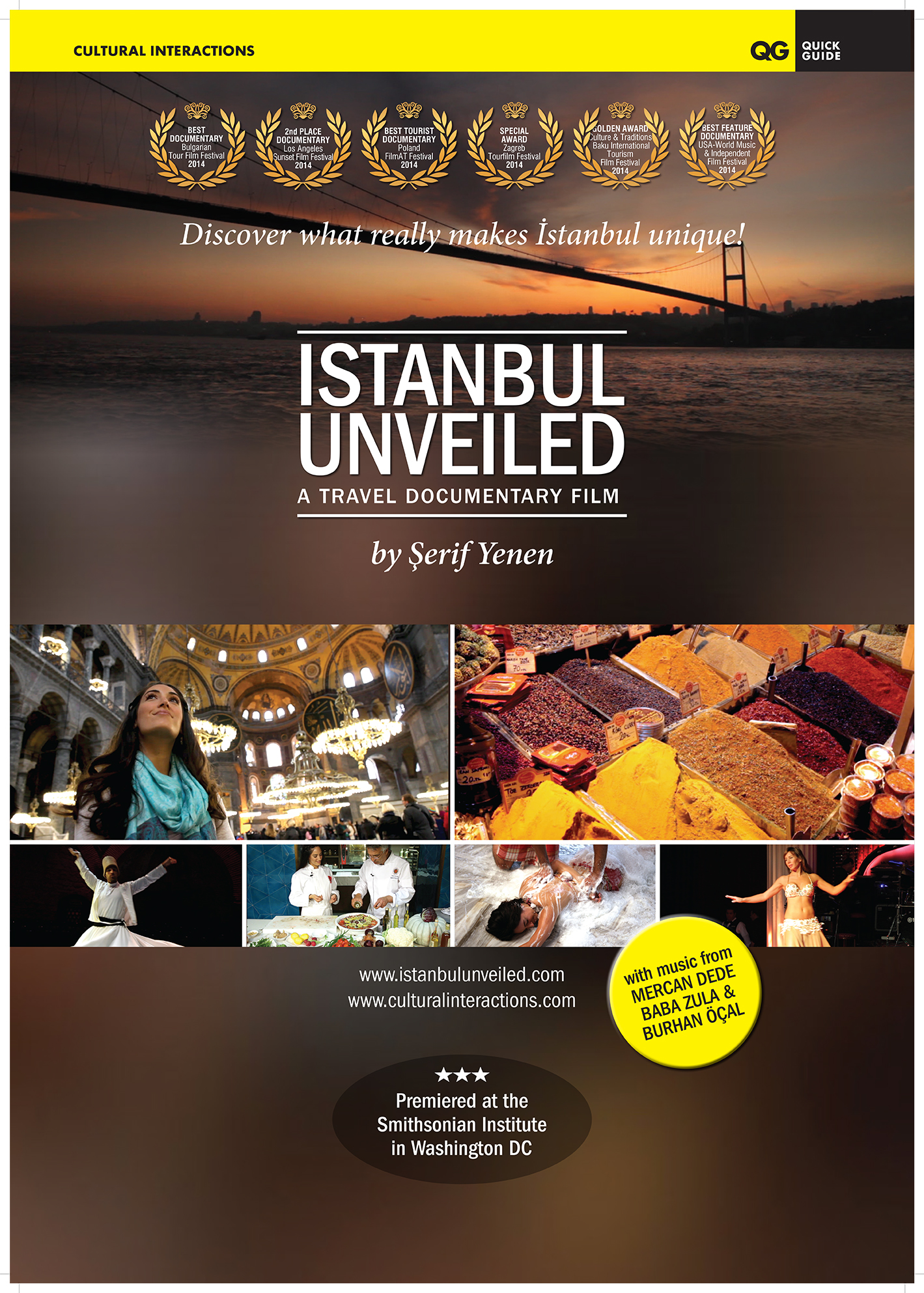 Low resolution cover image of the Istanbul Unveiled Documentary